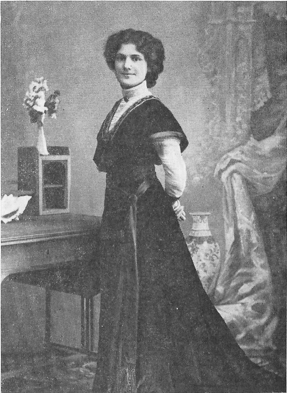 Russian painter Nadezhda Udaltsova (1886—1961). 1908.